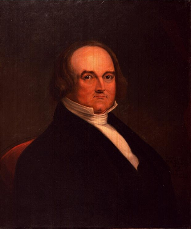 David Henshaw, Secretary of the Navy, 24 July 1843 - 18 February 1844